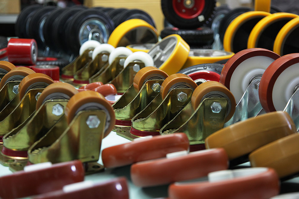 castors and wheels